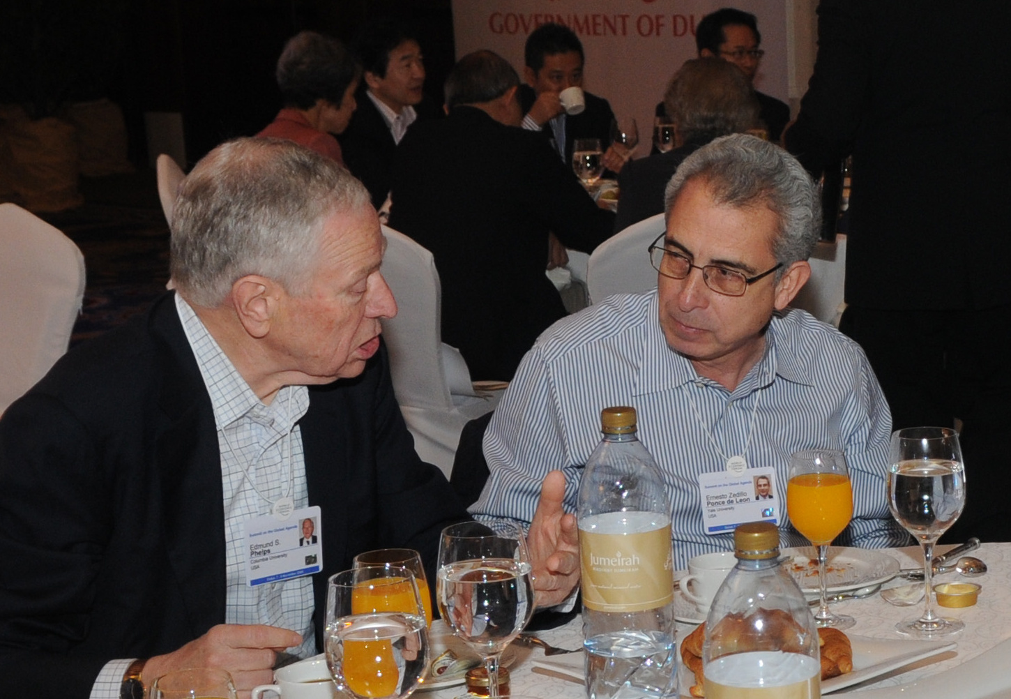 A cropped picture of Edmund S. Phelps, winner of the 2006 Nobel Memorial Prize in Economic Sciences (left) and Ernesto Zedillo, former President of Mexico (right) at the World Economic Forum Summit on the Global Agenda 2008.